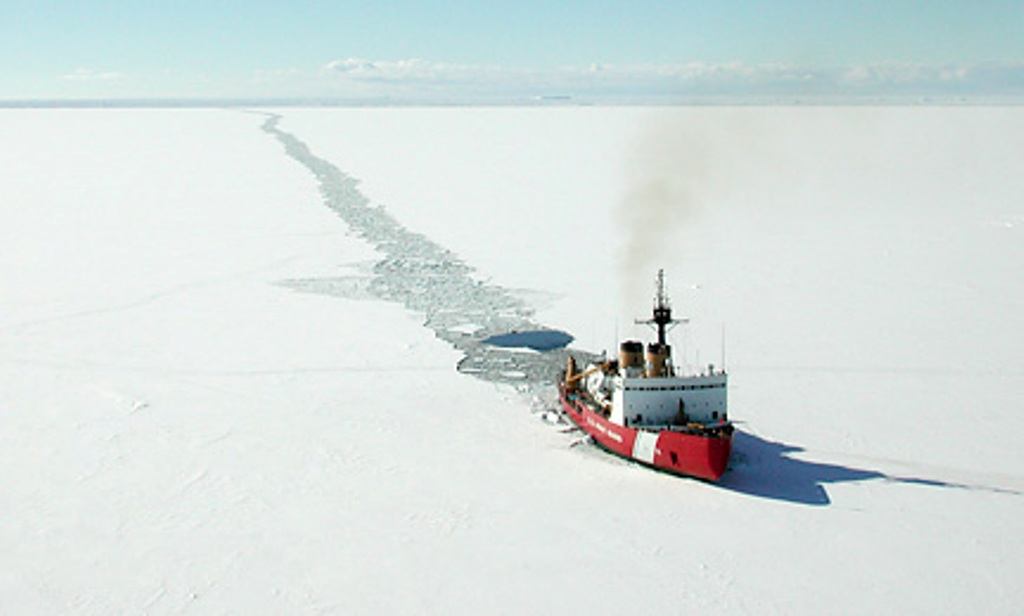 USCGC Polar Sea.